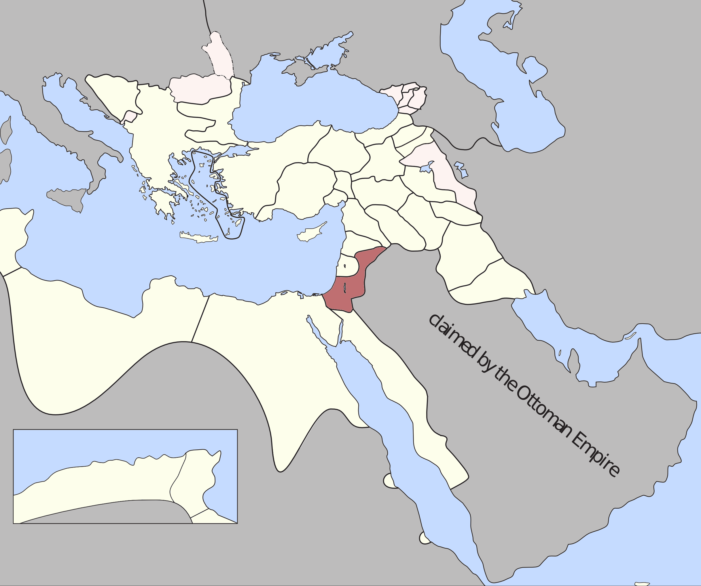 Damascus Eyalet — Ottoman Empire (1795). Source: A Brief History of the Late Ottoman Empire at Google Books By M. Sukru Hanioglu, Figure 1